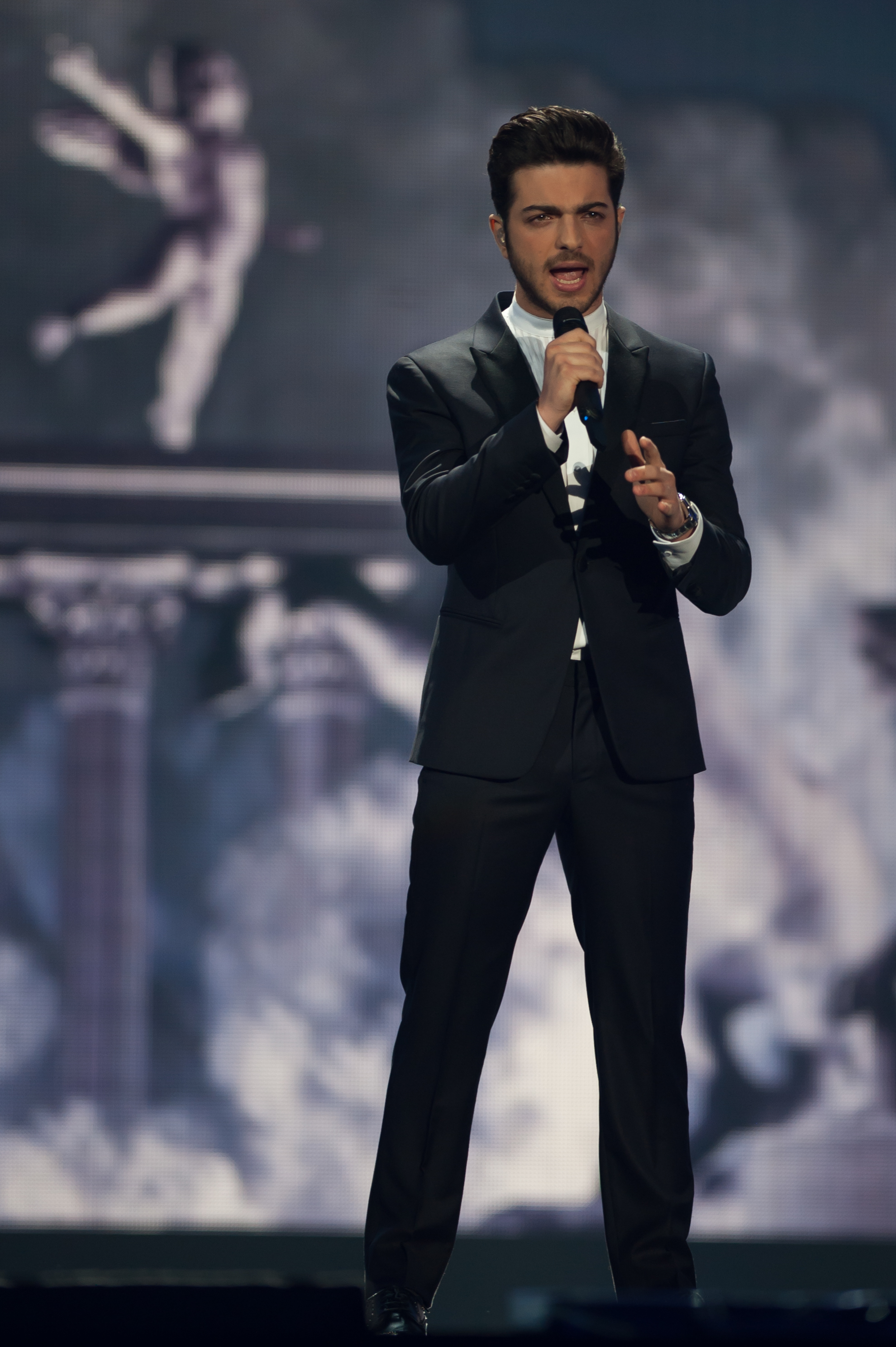 Eurovision Song Contest Vienna 2015: Il Volo